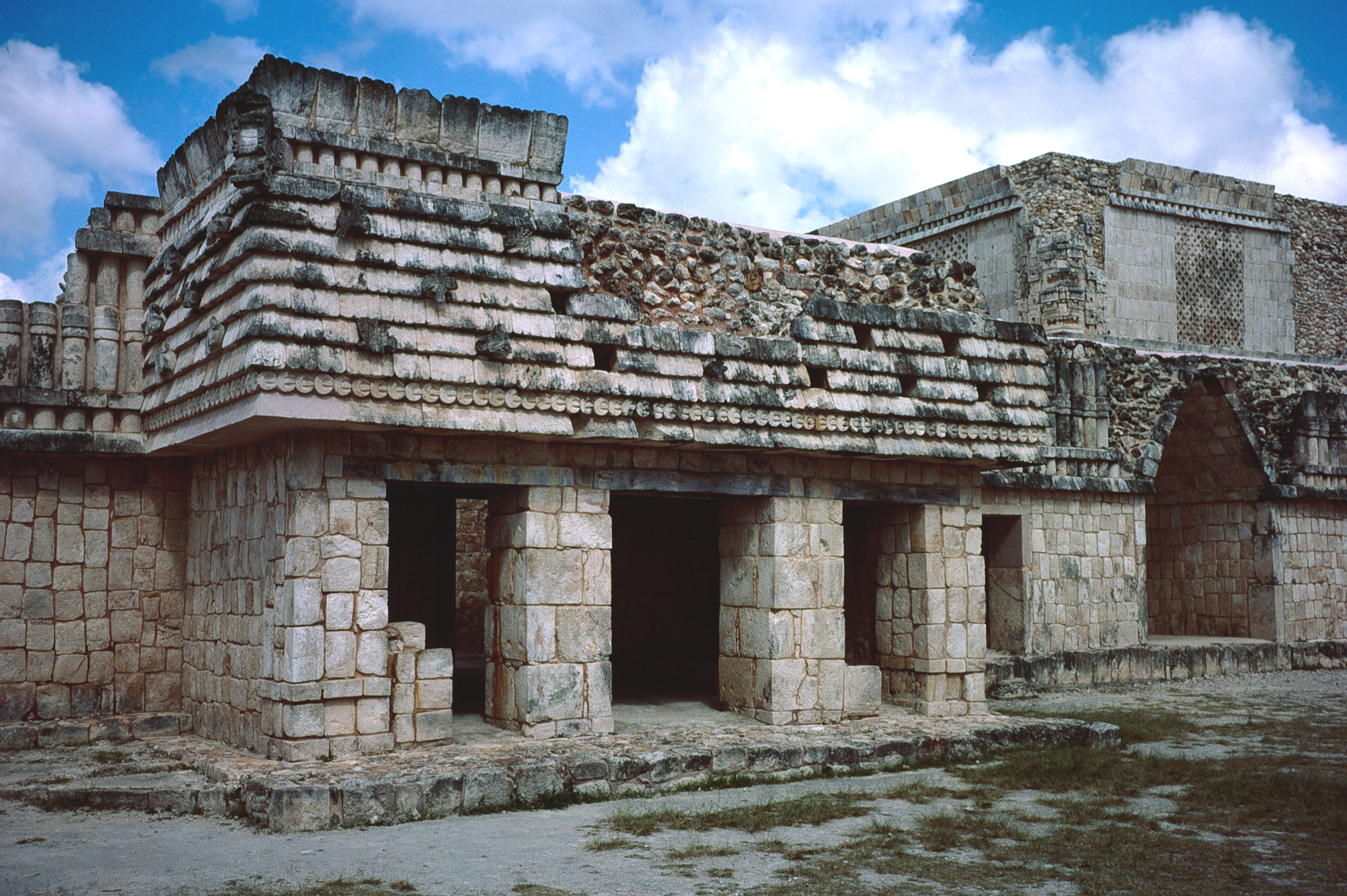 Uxmal, Yucatan, Mexico: Birds Plaza, West building, southern Annex